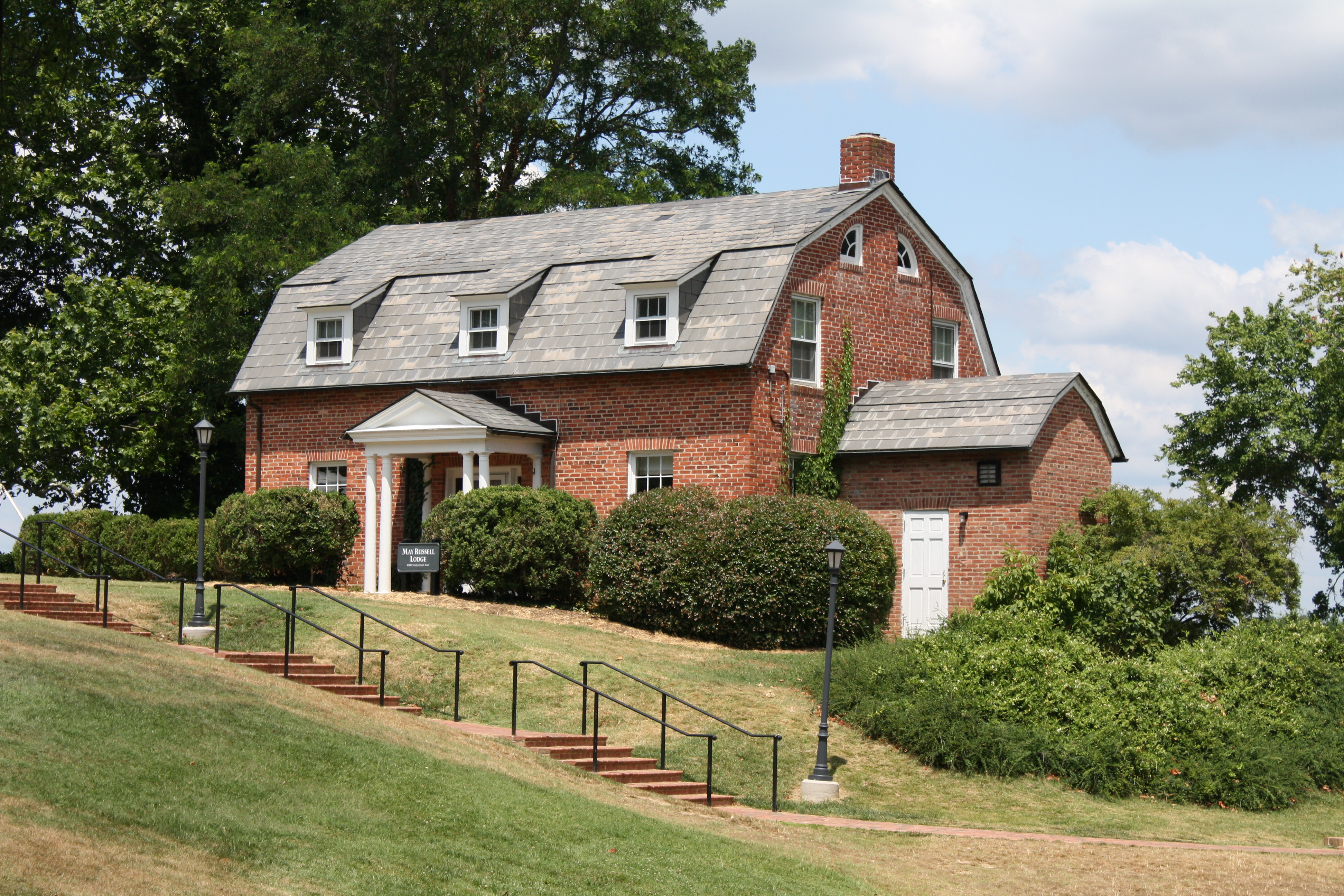 St. Mary's College of Maryland. Photo, Elvert Barnes, 14 June 2011